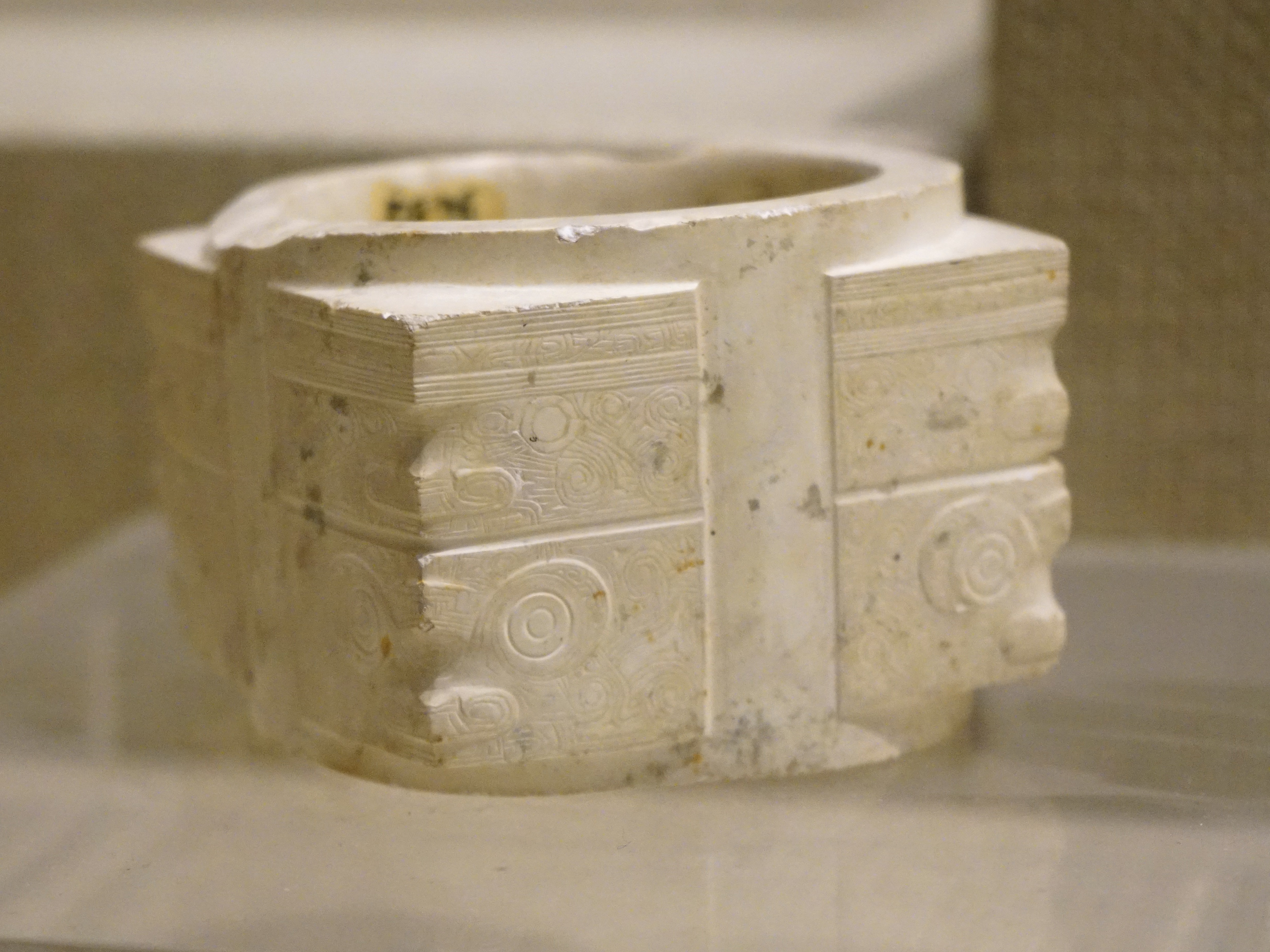 Jade Cong with Combined Patterns of Human and Animal Face. Liangzhu Culture. First Grade Culture Relic.